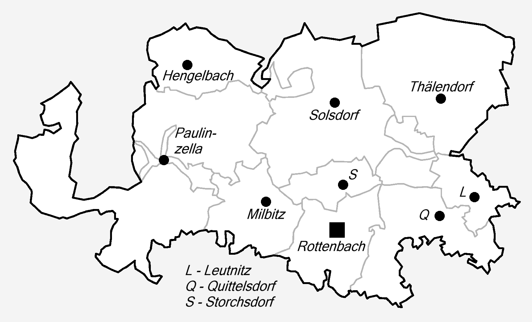 District-Maps of Rottenbach.